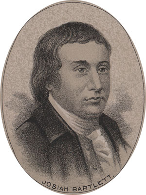 Josiah Bartlett.